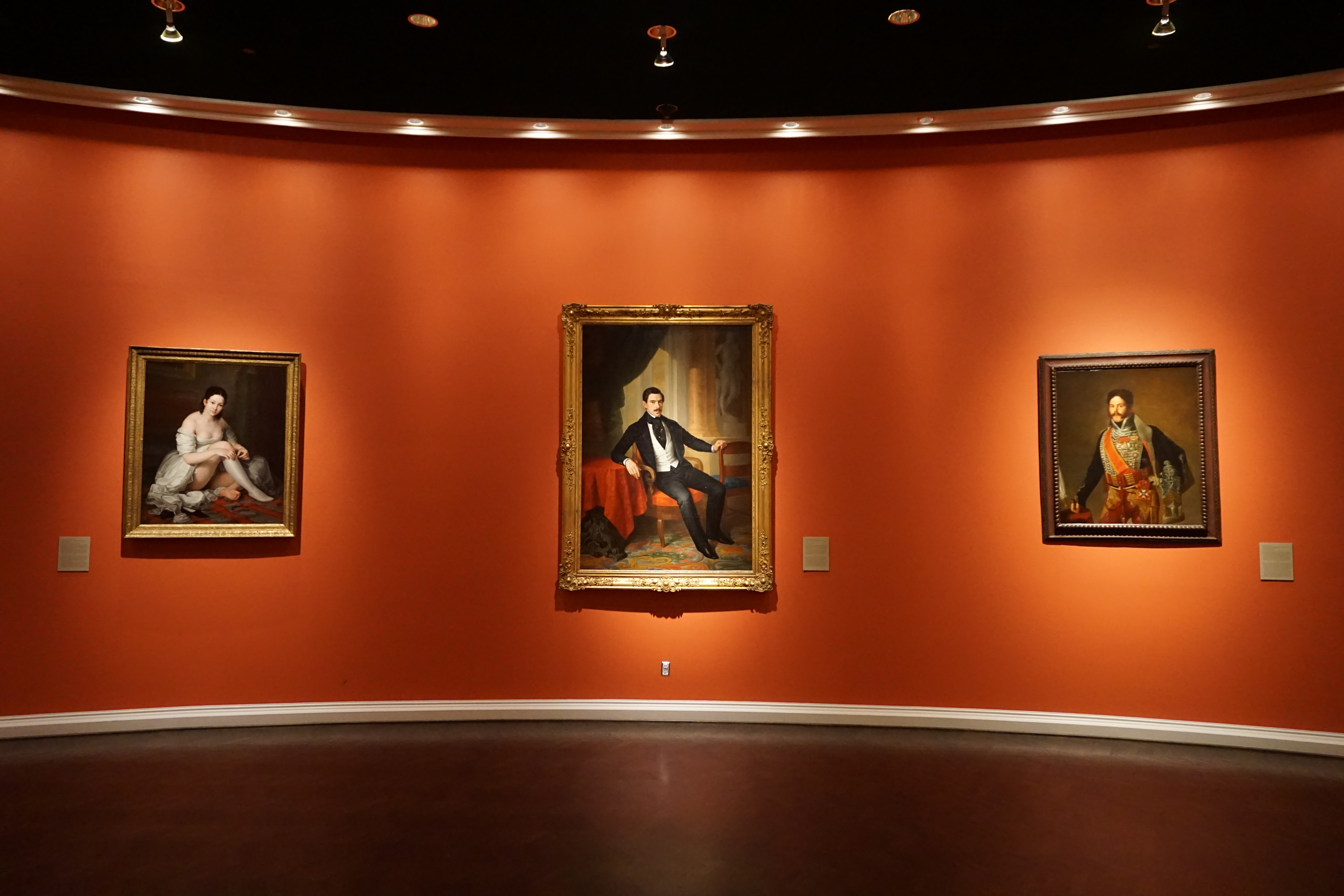 The Gene and Jerry Jones Great Hall at the Meadows Museum in University Park, Texas (United States).